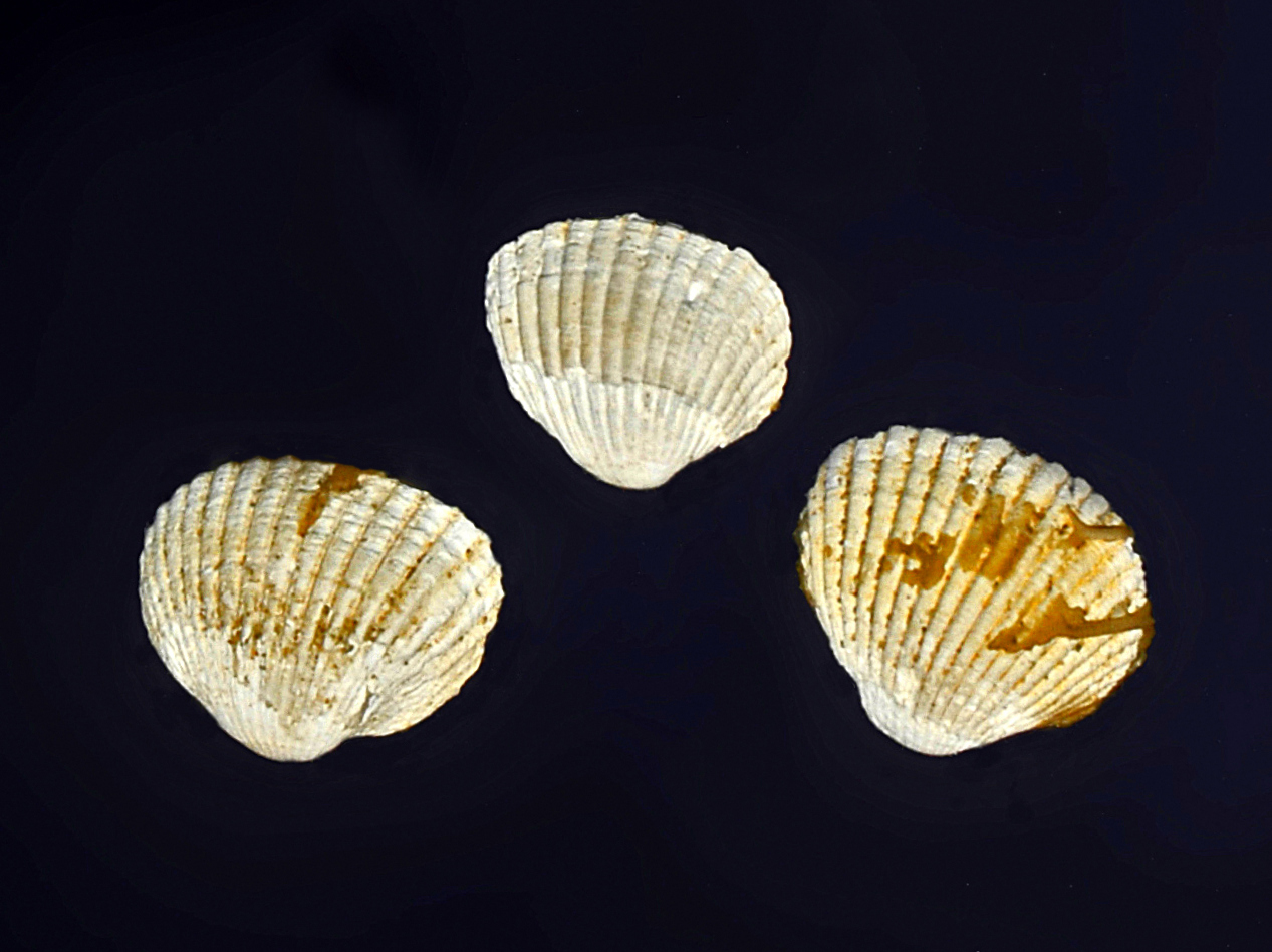 Fossil valves of Cerastoderma edule from Pliocene of Italy, on display at the Museo Paleontologico, Asti